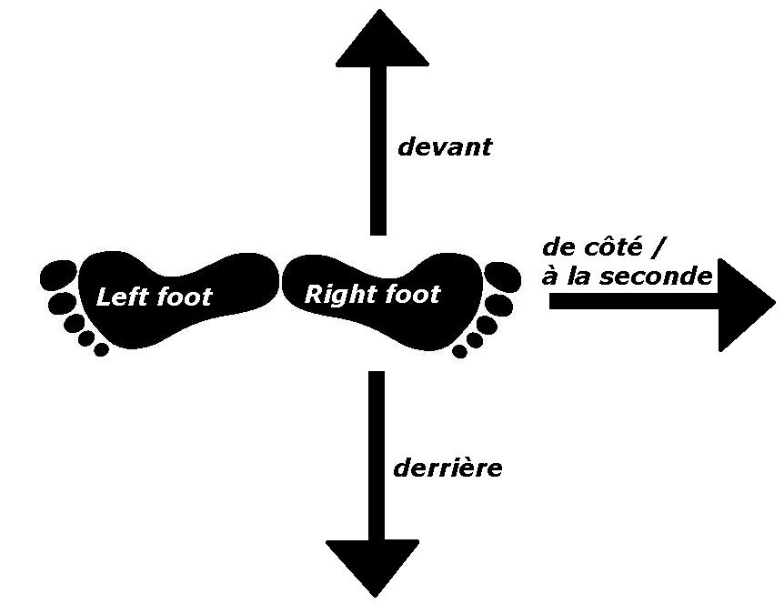 principle of en croix in ballet